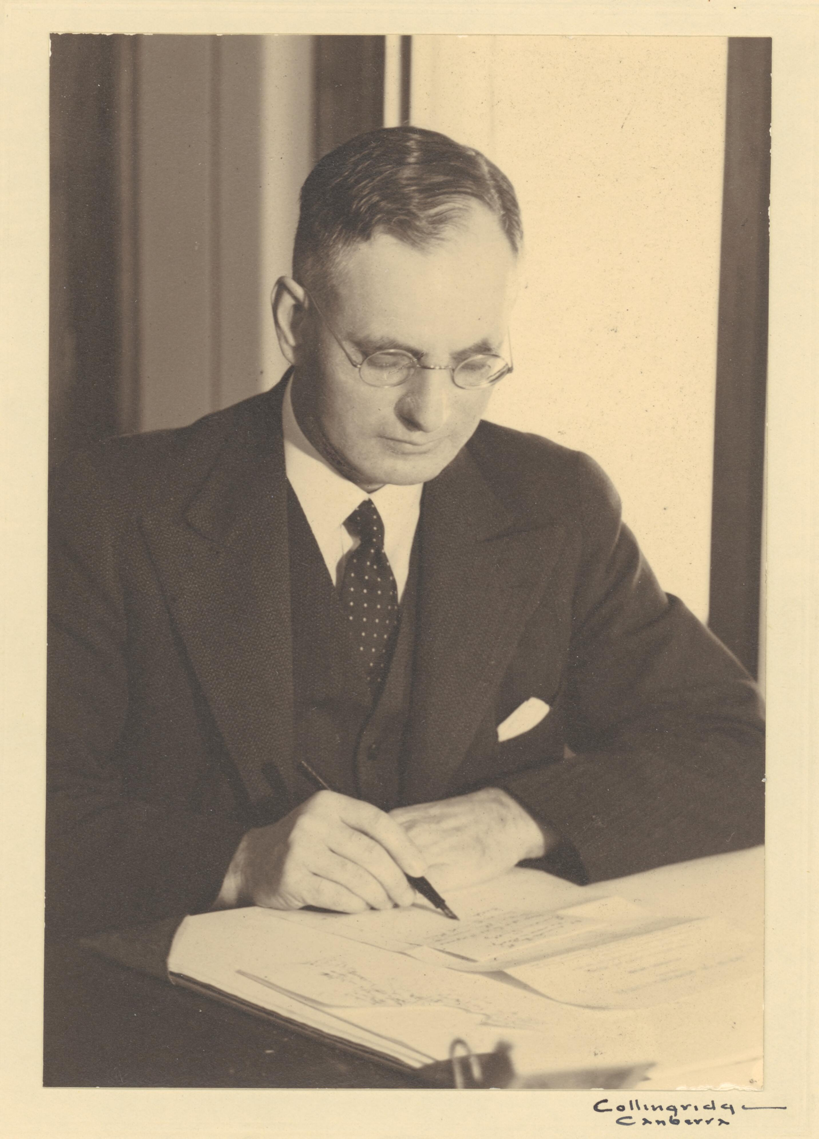 John Curtin as Leader of the Opposition